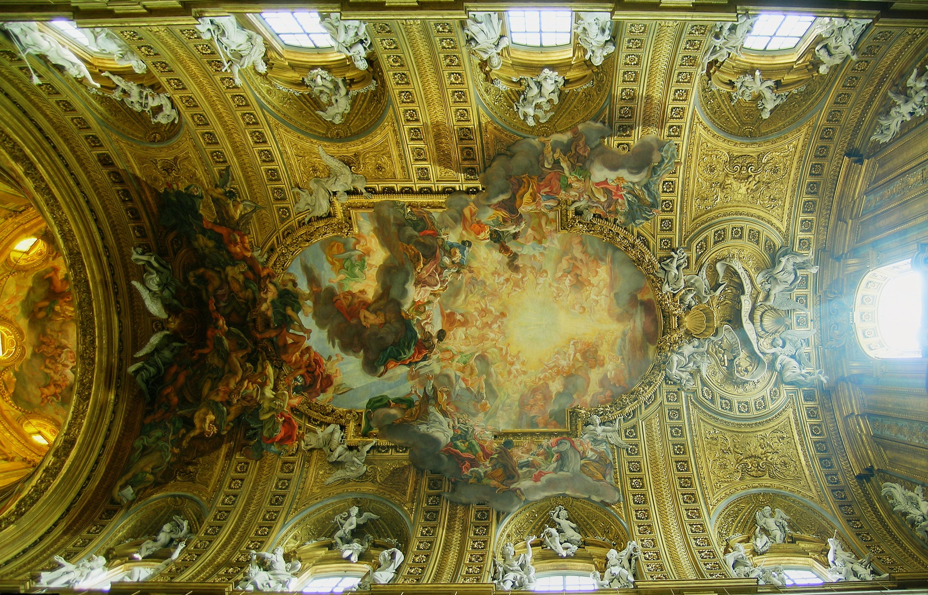 Giovanni Battista Gaulli, Triumph of the Name of Jesus, 1676-1679. Ceiling fresco with stucco figures, Church of Il Gesù (Roma). To create it, I took 4 different exposures of 4 different views, for a total of 16 pictures. Then I put them all together with Hugin and Qtpsfgui, creating a wide HDRI that I rendered using the Reinhard '04 algorithm with the following settings: pregamma: 1.6 brightness: -9 saturation: 1.2 post-processed with Gimp